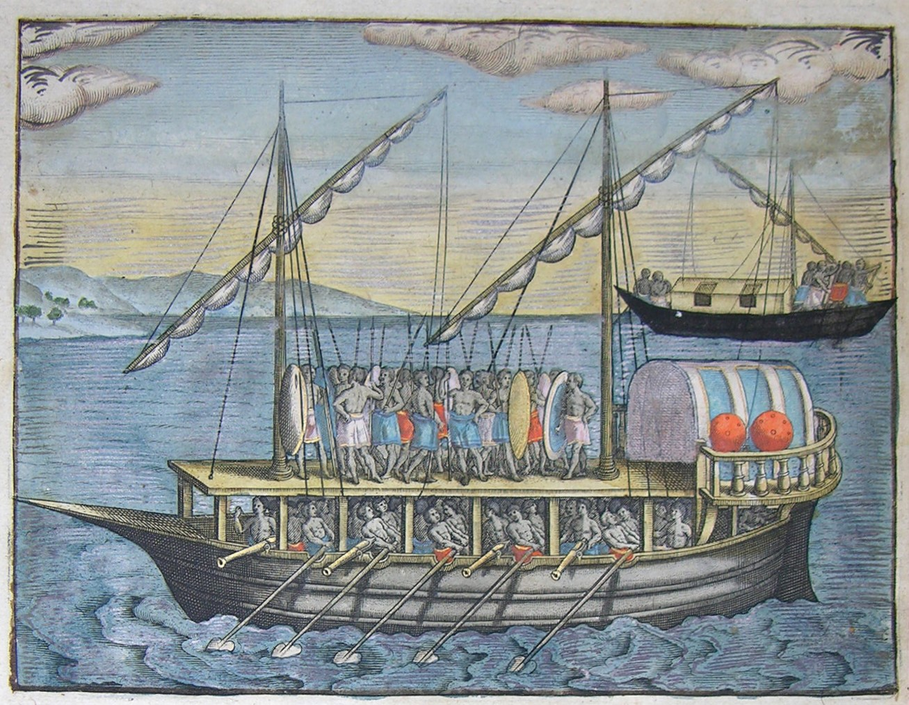 De Bry, Johann Theodor, (1560-1623) and Johann Israel de Bry (1565-1609). Part III, Plate 27, Small Indian Galley and Boat. From the "Little Voyages"GALLEONS AND BOATS IN BANTAM ASIAN VESSELS IN BANTAMThe illustration shows four different types of vessel in the harbor of the trading town of Bantam on the northwestern tip of Java. The vessel on the left, with the high running aft and the two yards is called a iuncos in the journal, which is also called Junk, after the Javanese word Djong. Left we see a Chinese Junk. In the rear, there is a proa with a bowed prow and aft, used by the Javanese for trade along the coast. The foreground shows a proa with double outriggers. The Dutch called them 'kites', because they seemed to skim across the water so fast, it seemed as if they were flying.Small Indian galleons and boatsThey have boats and galleons named Cathurs by them which they used in times of war on which they carry 4 or 6 small canons the slaves are sitting on the lower level of the ship rowing: above on the deck the soldiers are standing on deck in their armor. The people on top of the ship are usually the most important colonels of Bantam. A lot of those ships consist of just one mast and one sail they use boat oars almost as we use them on our galleons, produced in Laffaon by Iaua, under instruction of the Turks who reside in Bantam.